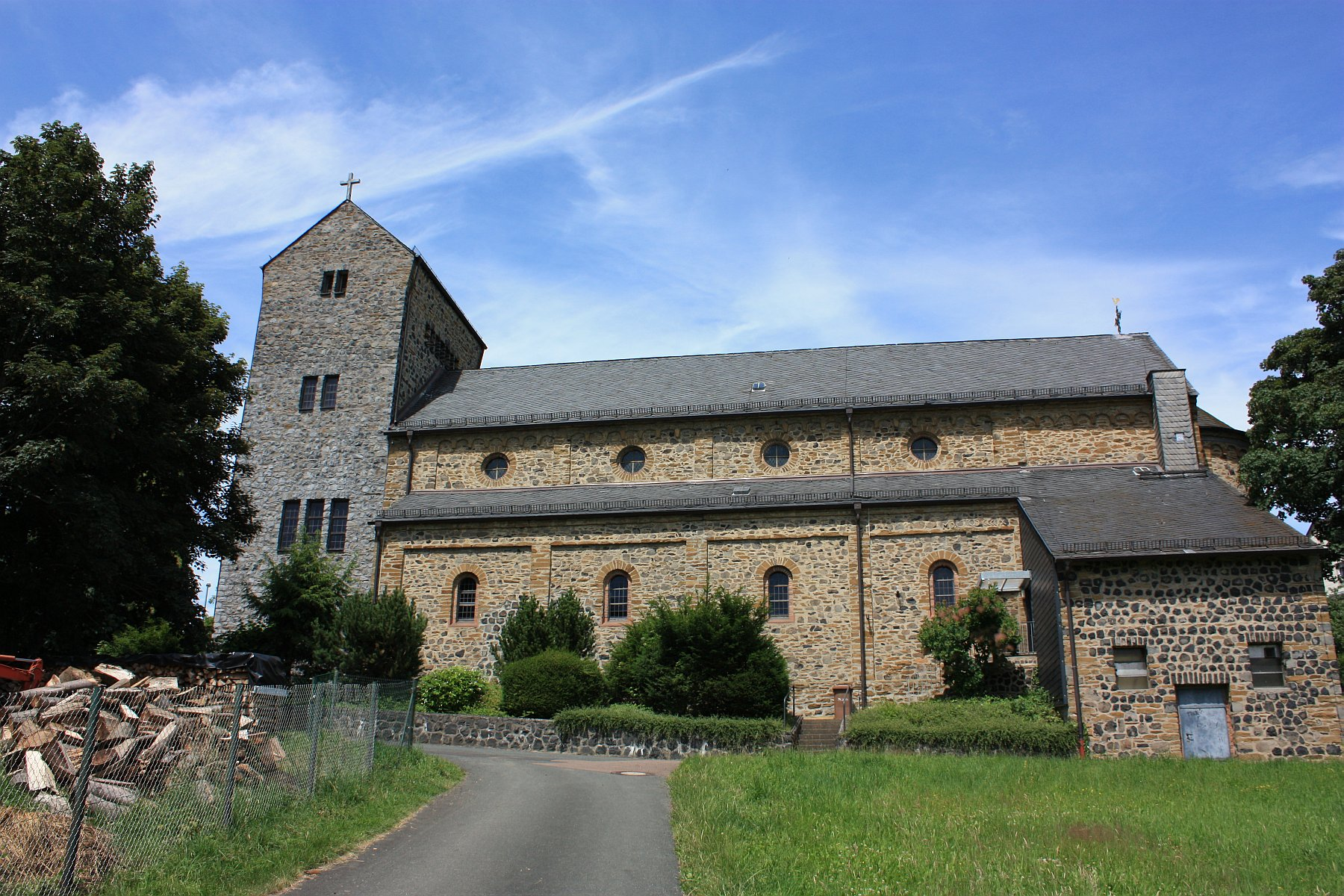 Church „St. Michael“ Probbach, Hesse, Germany (build 1870/73)